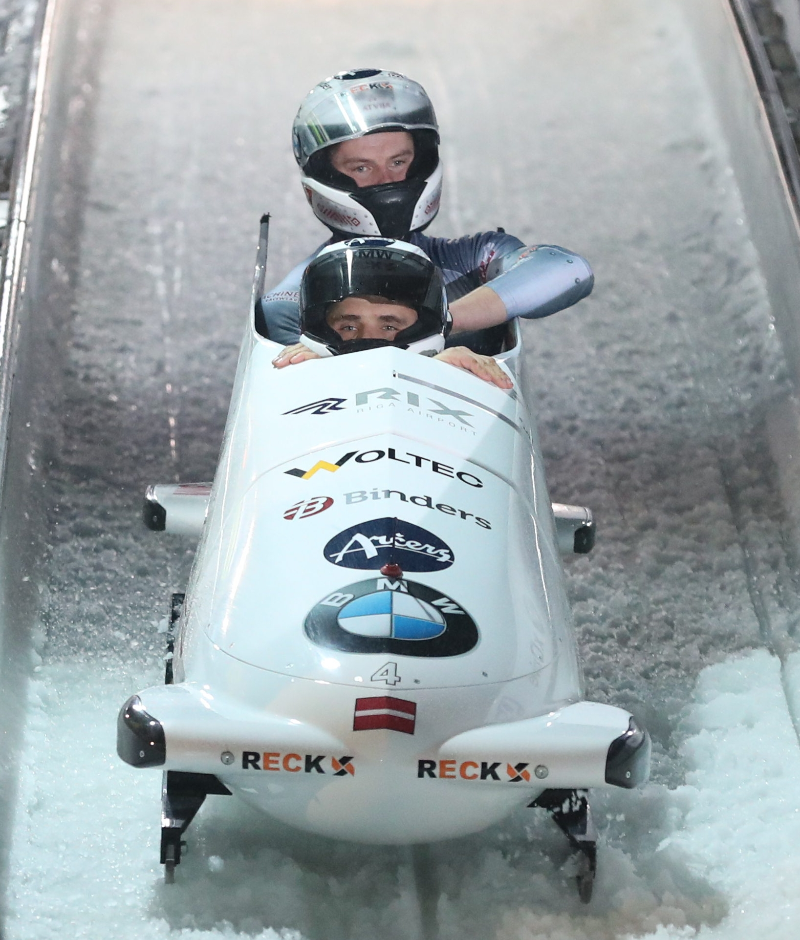 2-man Bobsleigh Men's World Cup race at the 2018/19 Bobsleigh World Cup in Altenberg